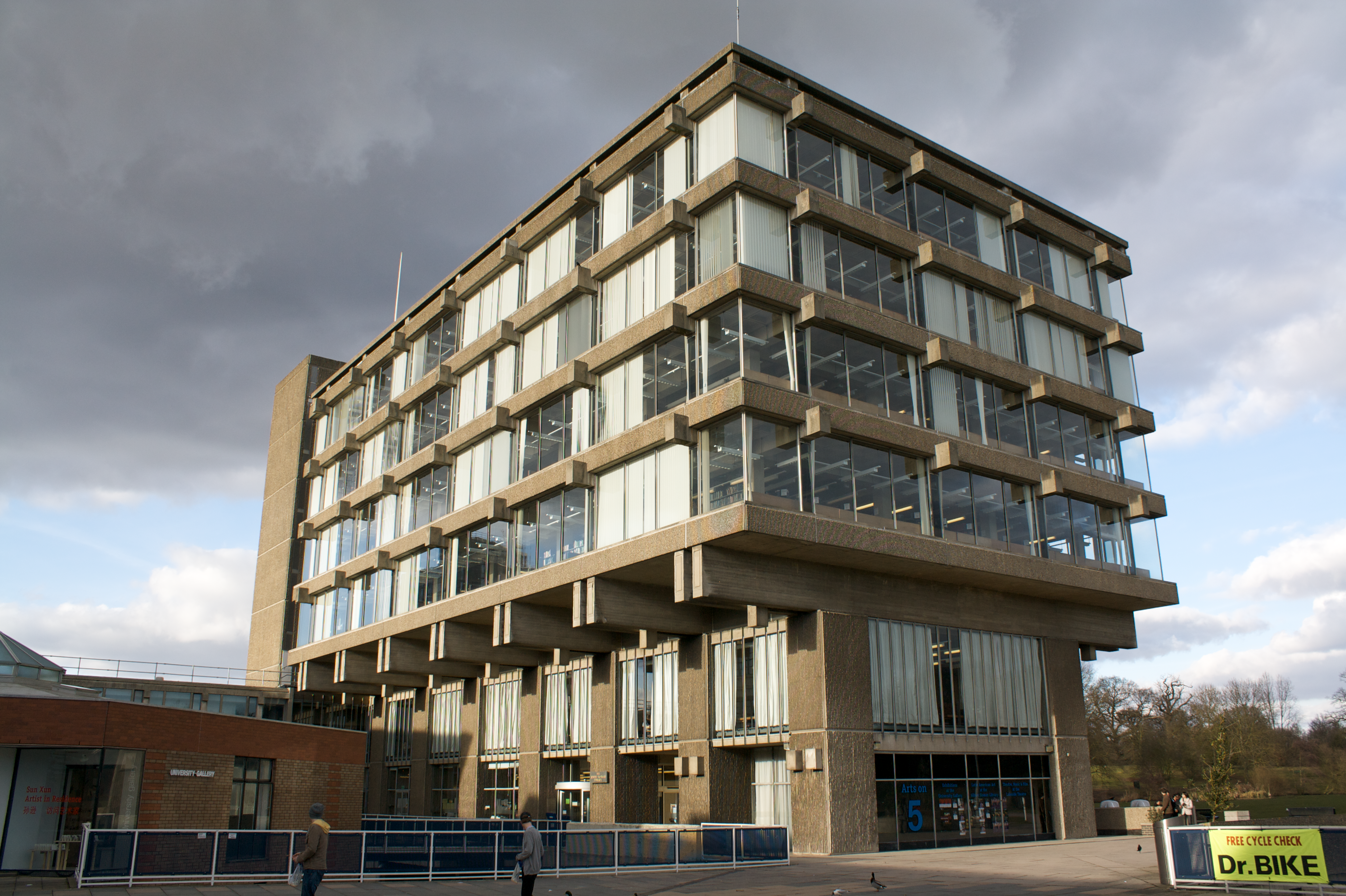 The Albert Sloman Library, part of the University of Essex.